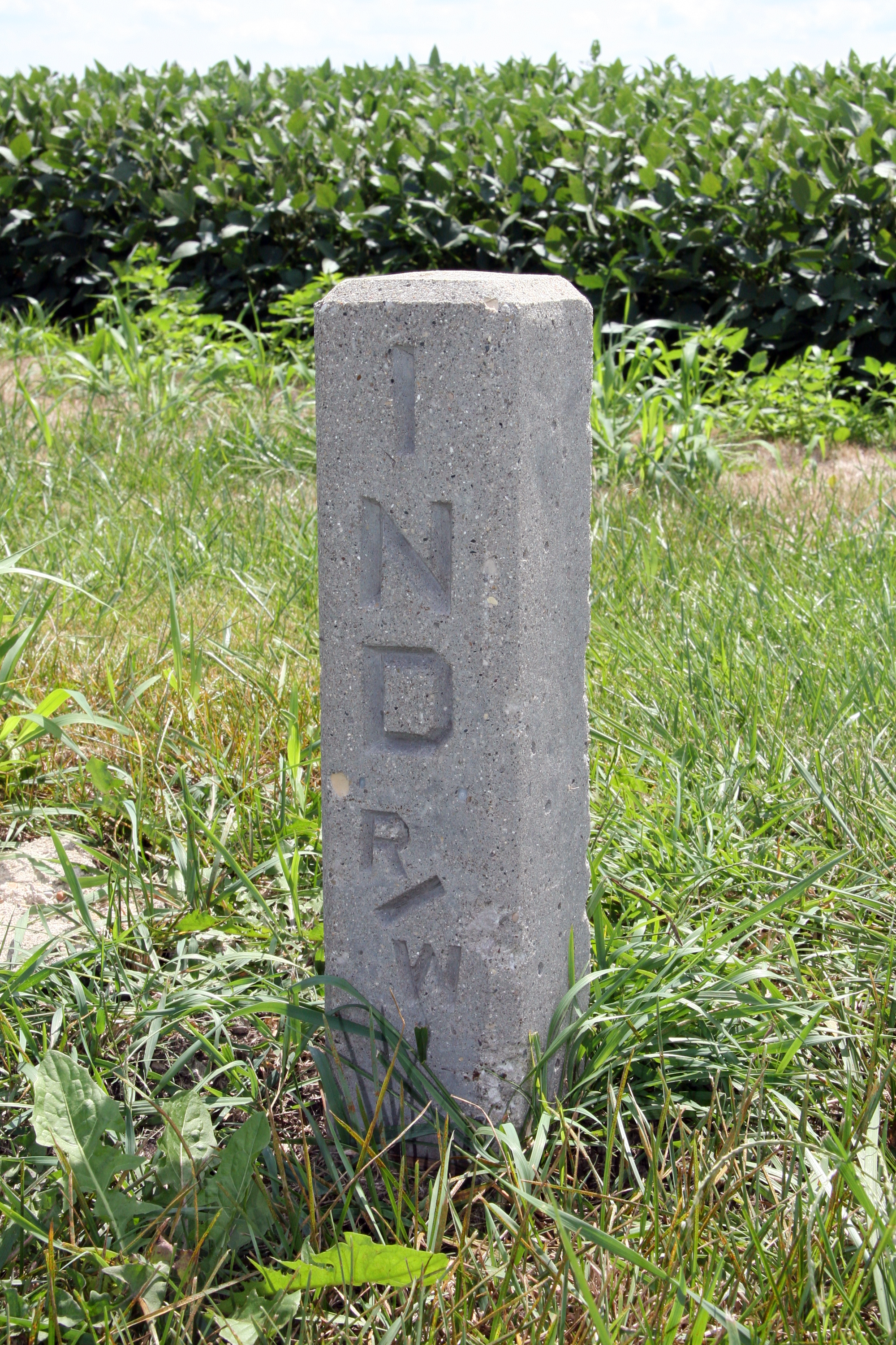 A Public Land Survey System marker along Indiana State Road 18 west of Fowler, Indiana.